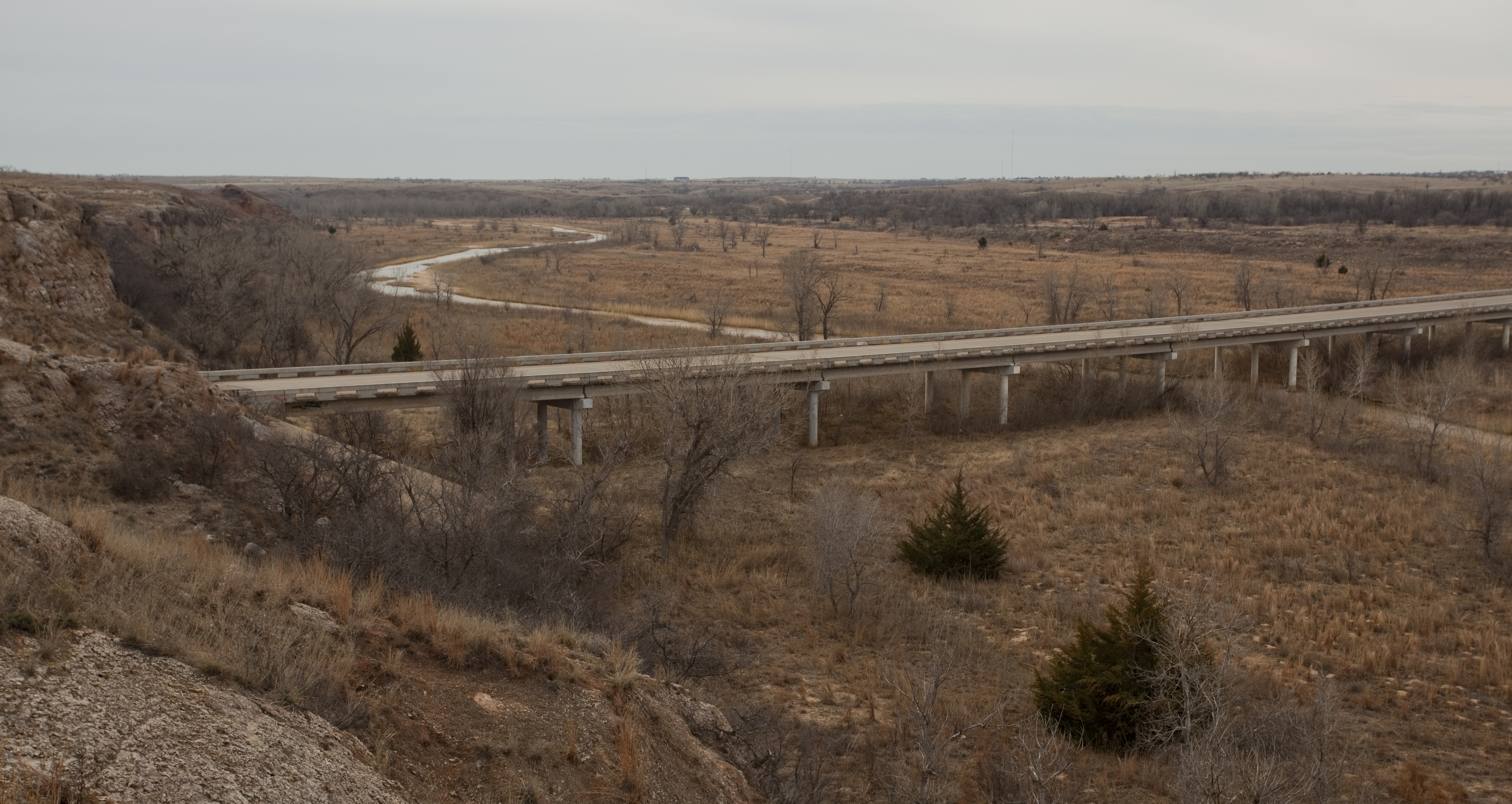 U.S. Highway 83 bridge passing over the North Fork Red River.